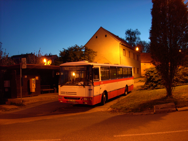 Night bus in Ořešín